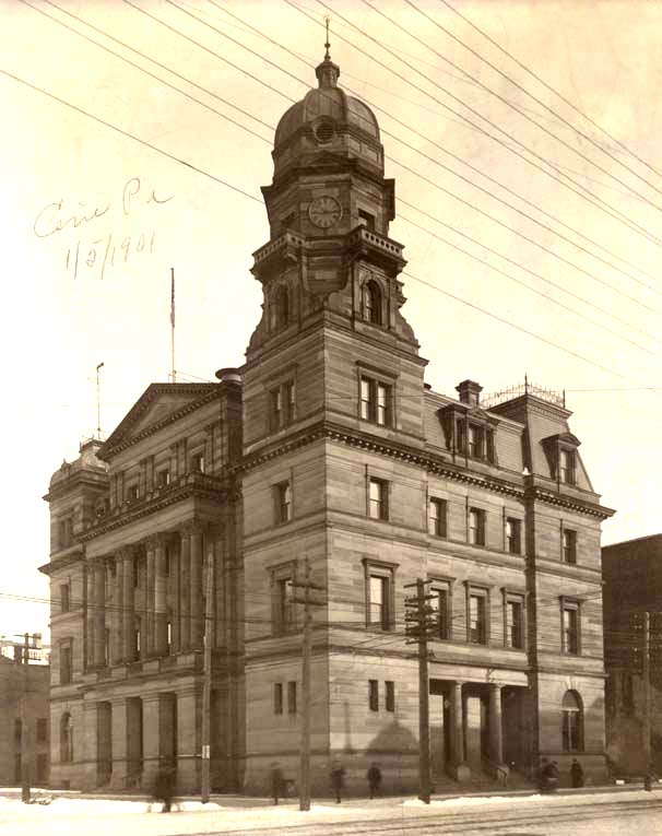 Historic Federal Courthouses Erie, Pennsylvania U.S. Court House and Post Office (1901) Completed in 1887. Supervising Architect: Mifflin E. Bell The U.S. District Court for the Western District of Pennsylvania met here until 1938; the U.S. Circuit Court for the Western District of Pennsylvania met here until that court was abolished in 1912. Razed c. 1936.